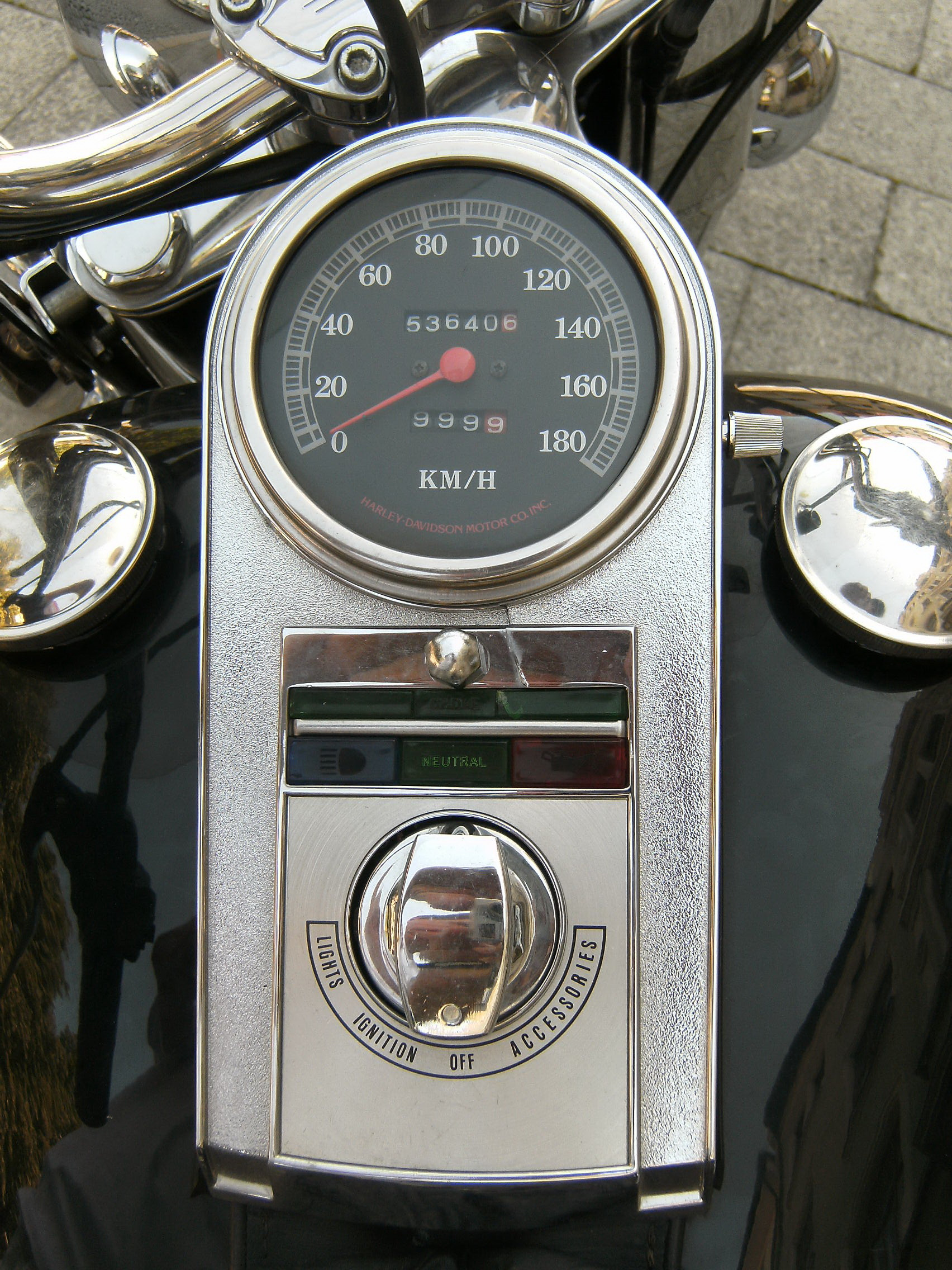 Speedometer of a Harley Davidson Softtail